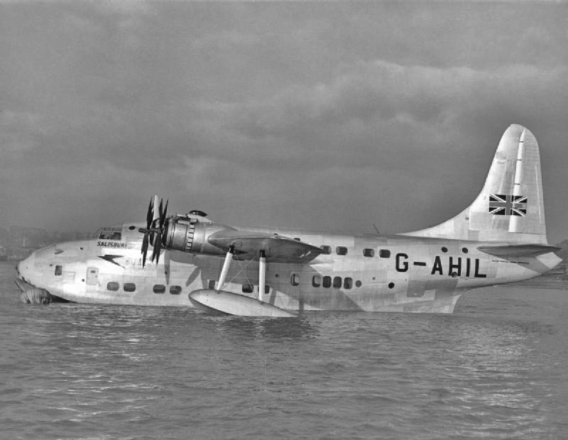 Short S.45 Solent (G-AHIL), BOAC, c. 1948